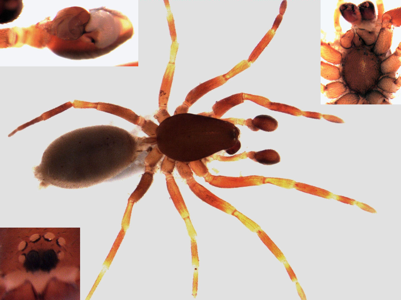 adult male Huttonia sp.